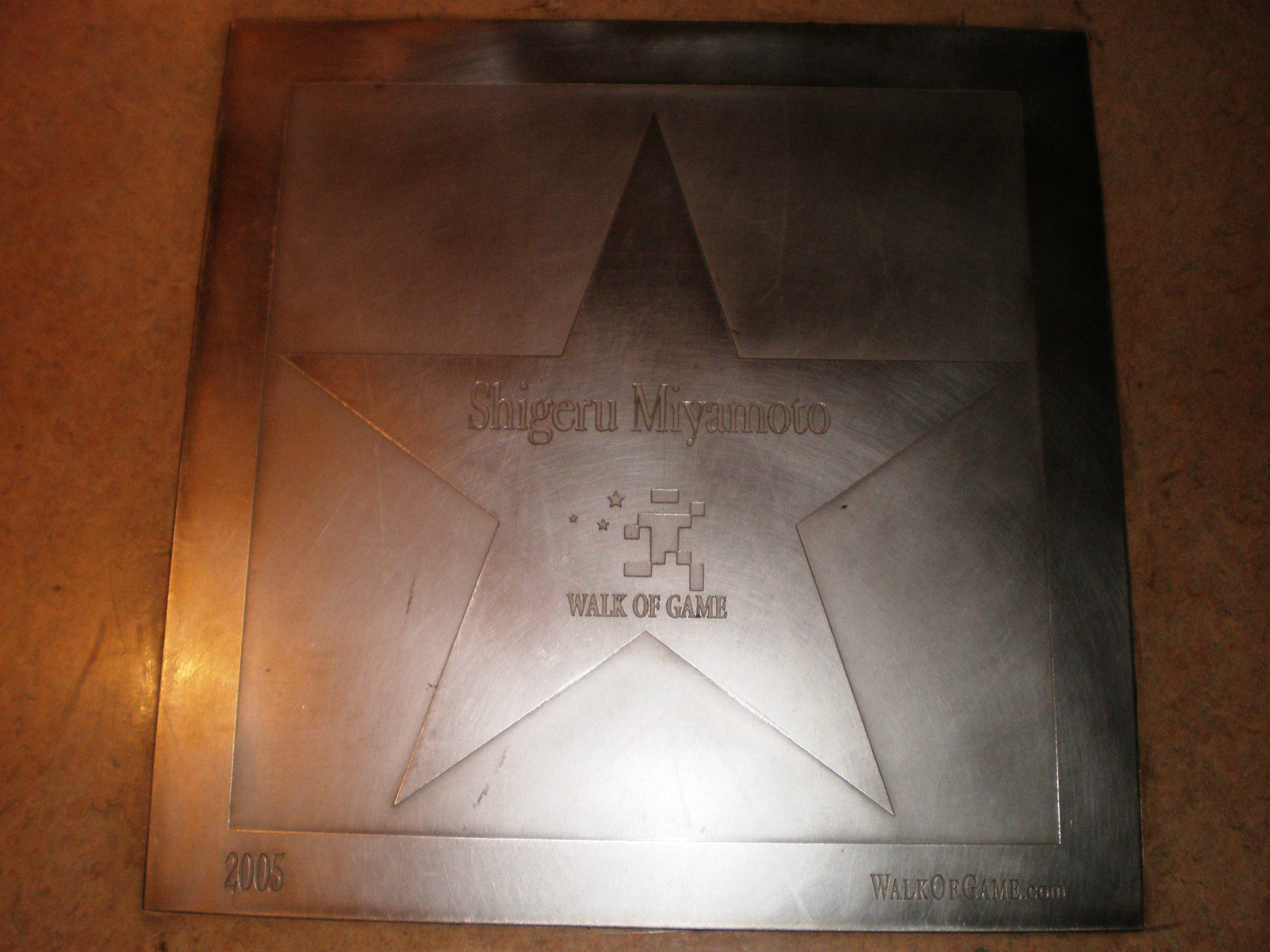 The star for Shigeru Miyamoto at the Walk of Game in the Metreon in San Francisco, California.